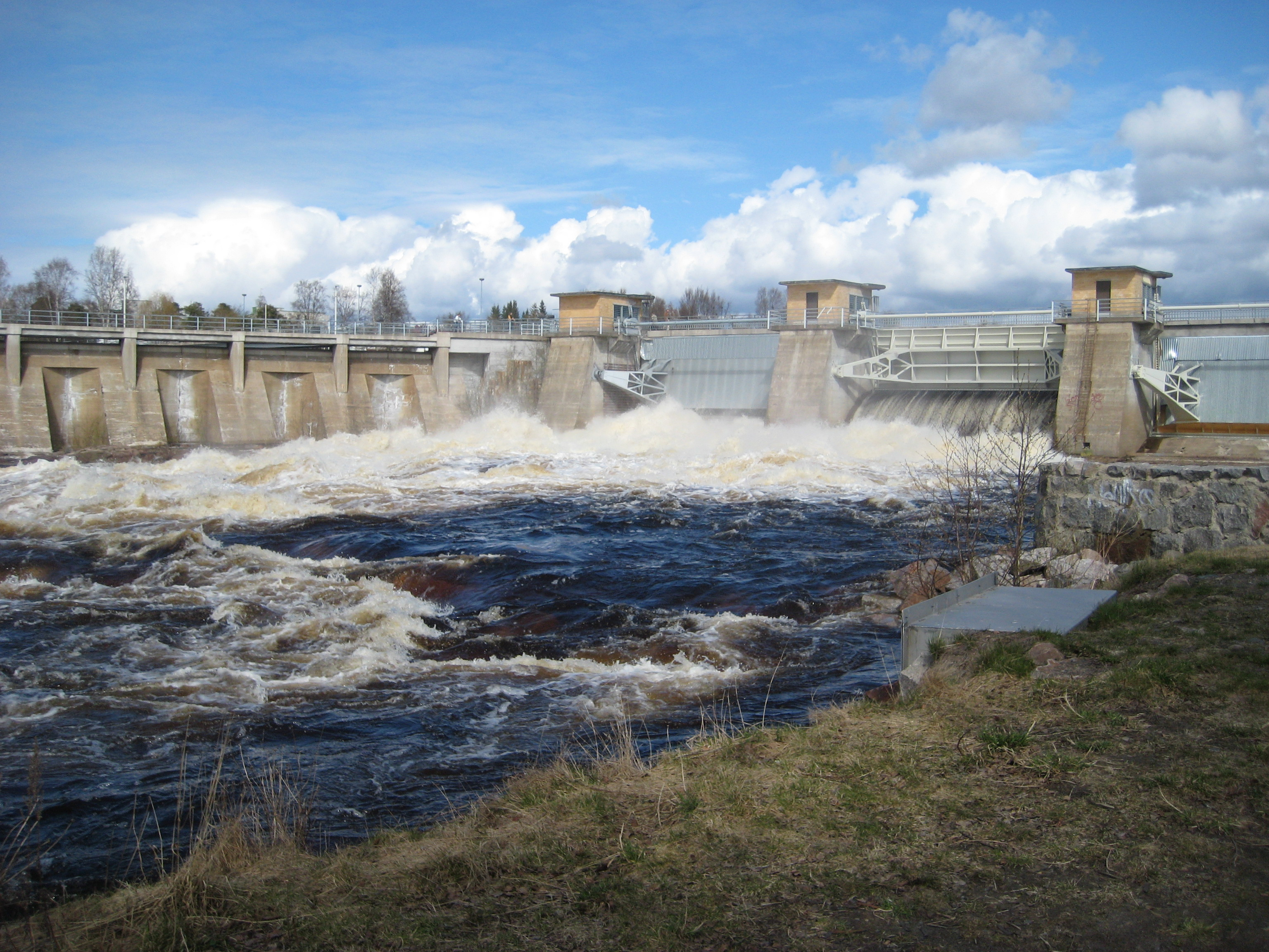 Merikoski Dam in Oulu, Finland with gates open